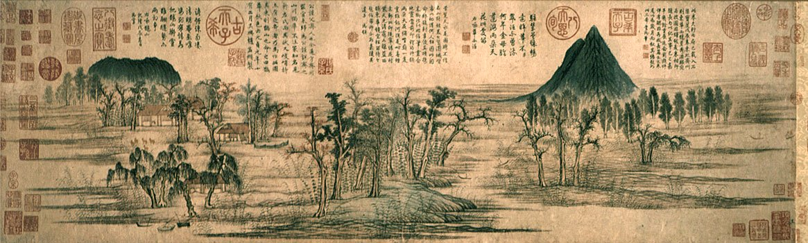 This painting is an example of the light brushstrokes used in the paintings of Yuan Dynasty artists. Shen Zhou followed in the footsteps of these artists, basing much of his work off of their style.